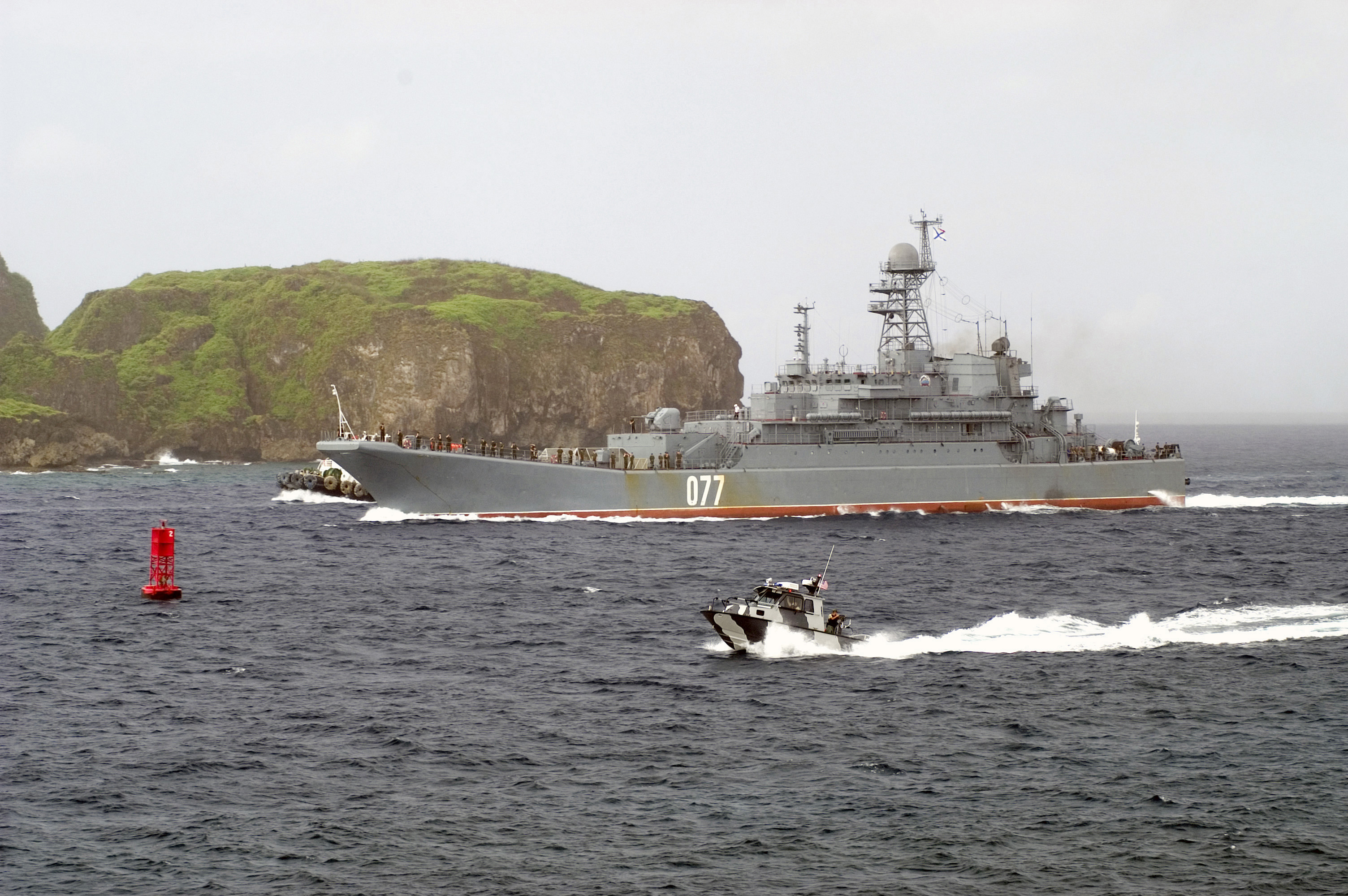 The Russian Federated Navy (RFN) Tank Landing Ship Project 775M Peresvet (ex-BDK-11) (RFN 077) navigates through Apra Harbor, Guam (GU), as a US Navy (USN) Harbor Patrol Boat (HPB) secures the area. Peresvet (RFN 077) participated in Passing Exercise (PASSEX) 2006, off the coast Location: APRA HARBOR, GUAM (GU) UNITED STATES OF AMERICA (USA)